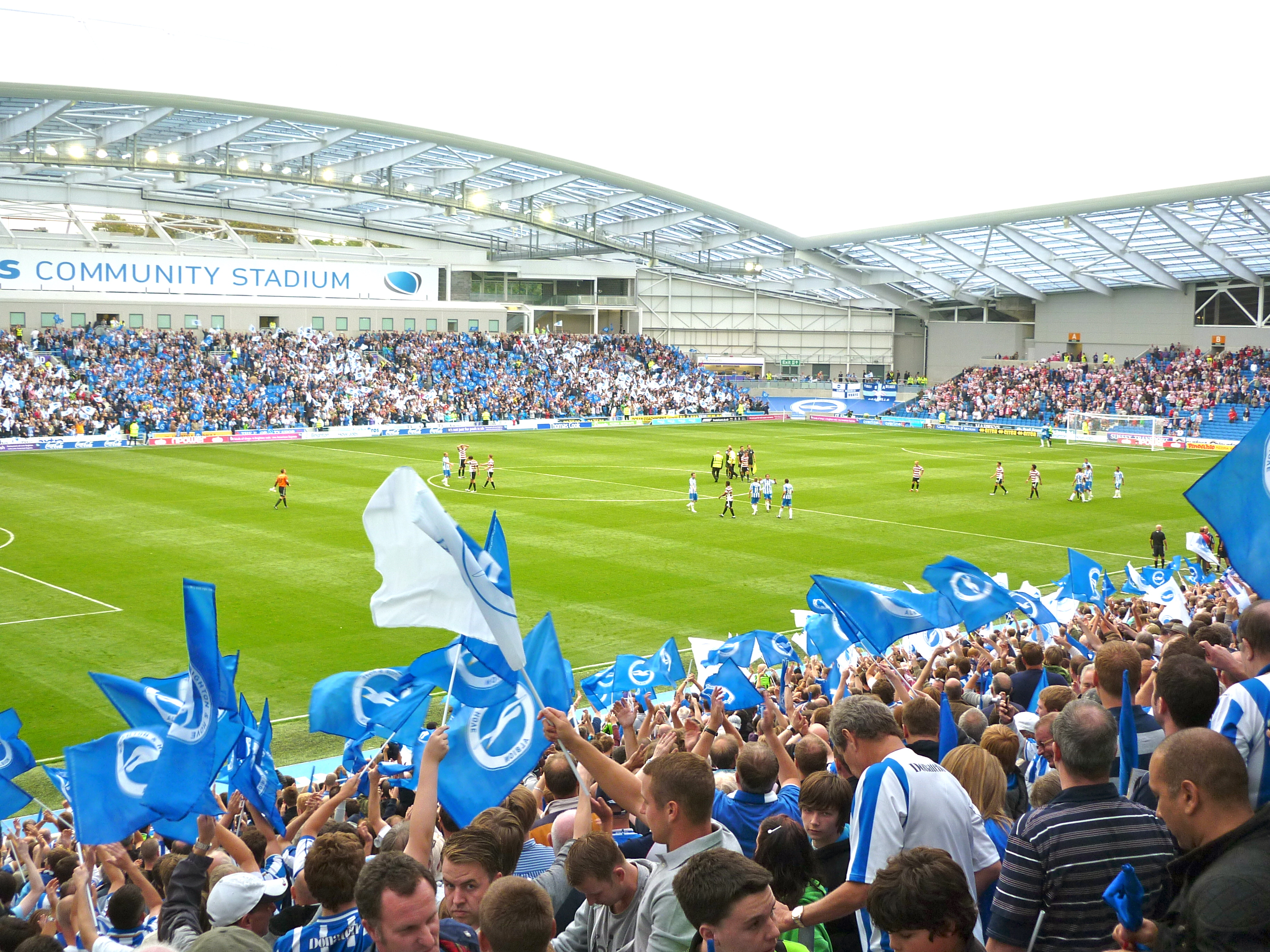 BHAFC v DRFC npower Championship 6/8/11